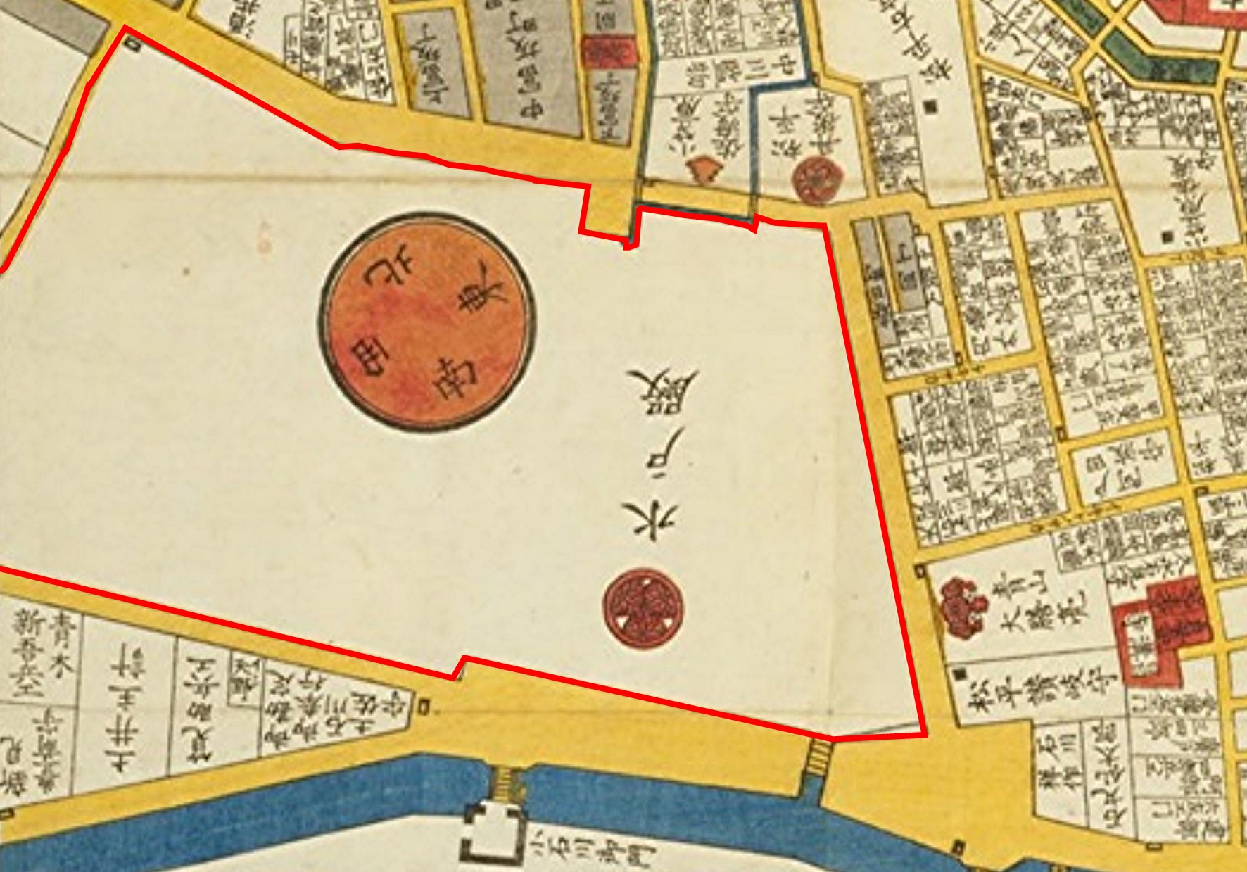 Residence of Mito clan at Edo